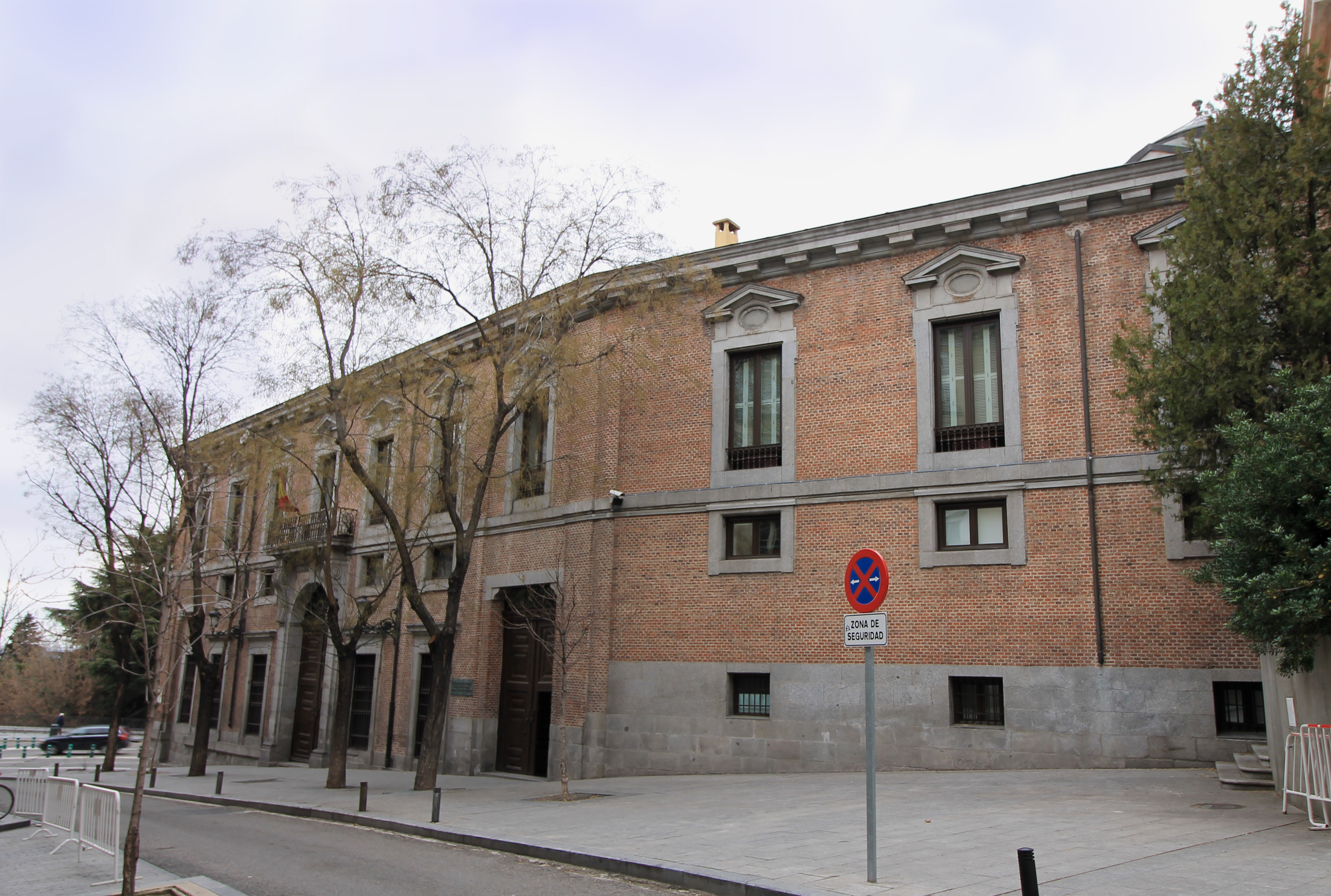 South-east façade of the Palace of the Marquis of Grimaldi in Madrid (Spain).